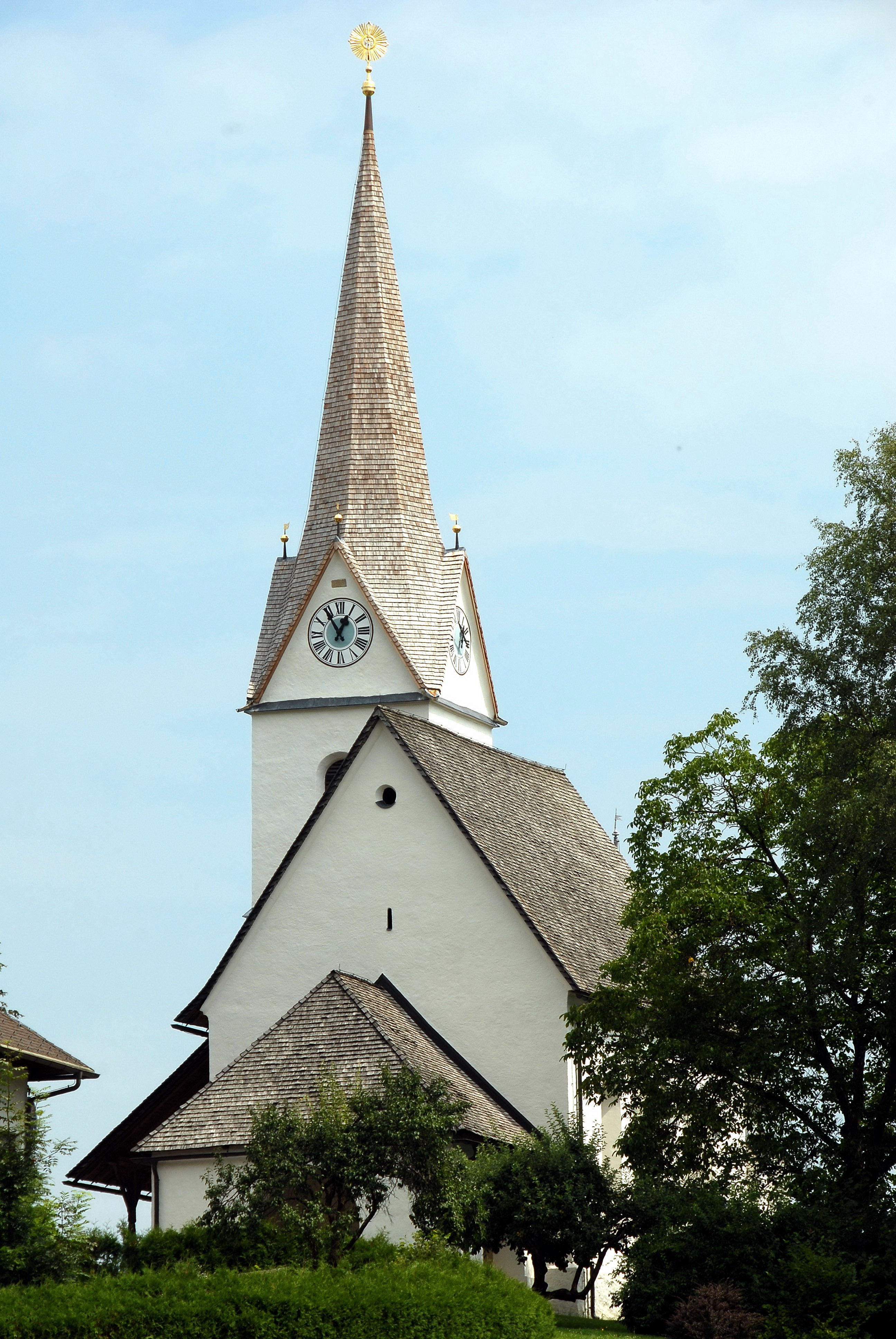 Subsidiary church Saint Anna at Reifnitz on the Lake Woerth, community Maria Woerth, district Klagenfurt-Land, Carinthia, Austria